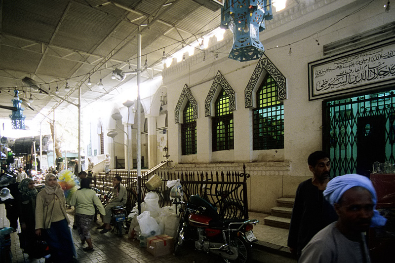 Façade of the Galal el-Din el-Asyuti mosque, Asyut, Egypt